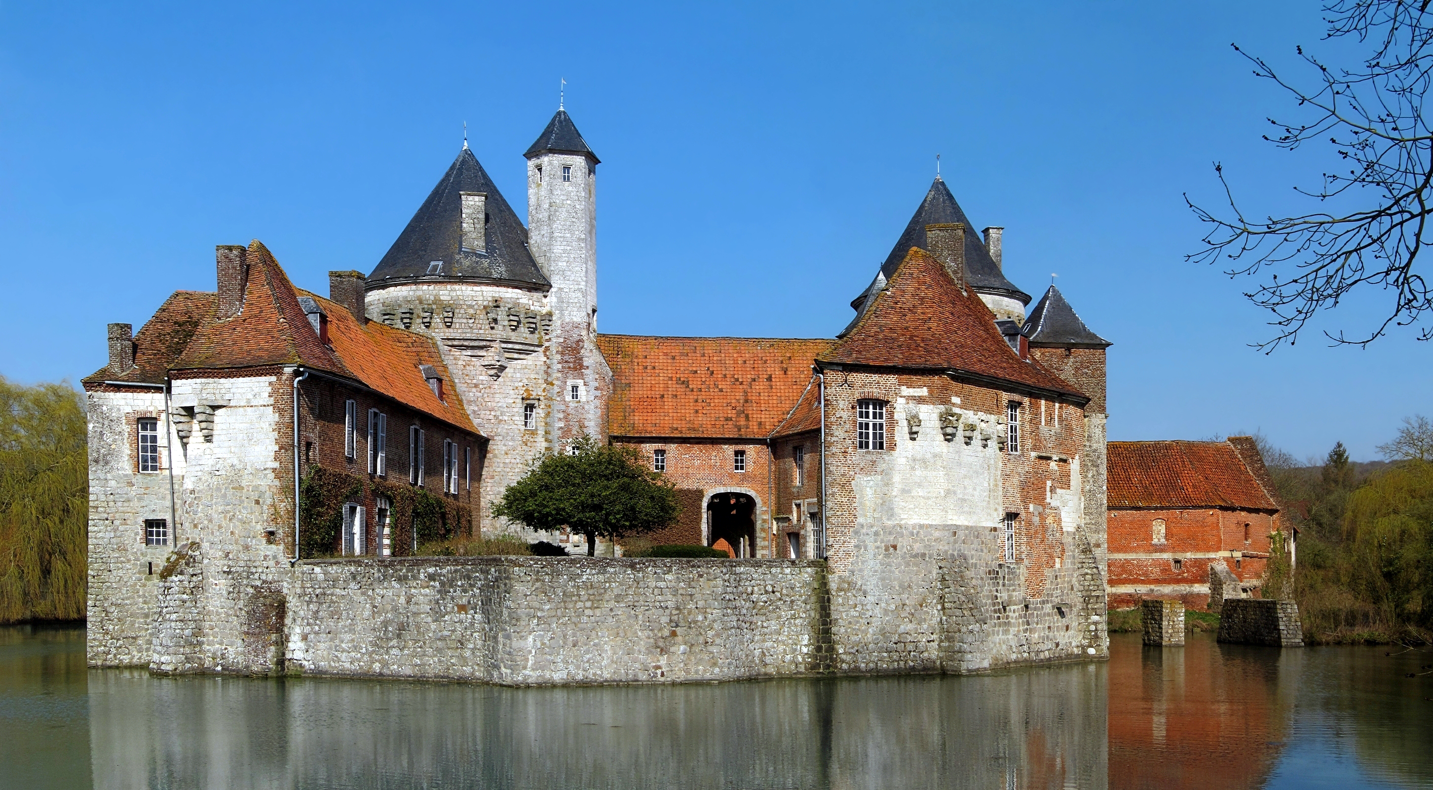 Back view of Olhain Castle, France.